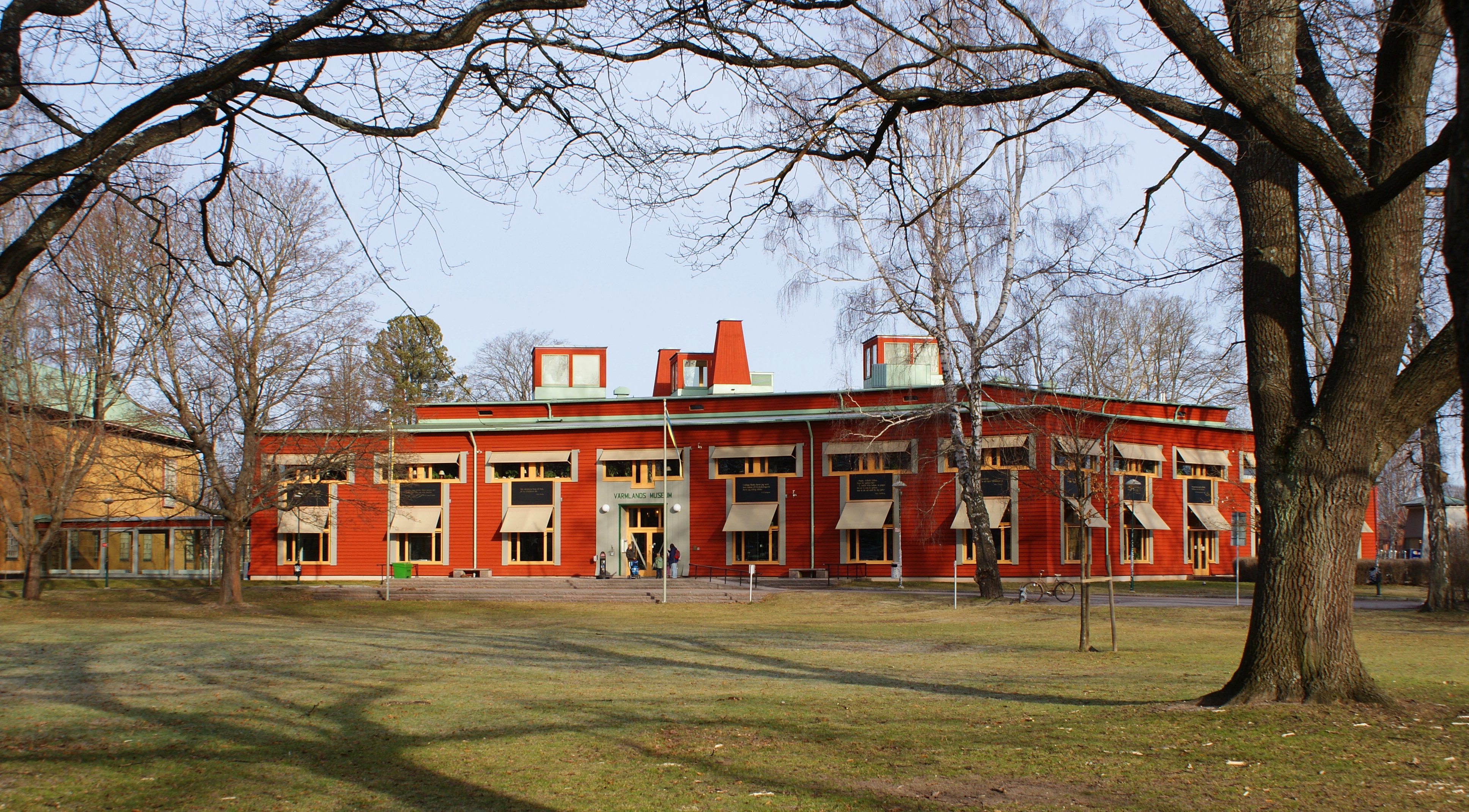 The new part of the museum, the old part is the yellow building to the right.